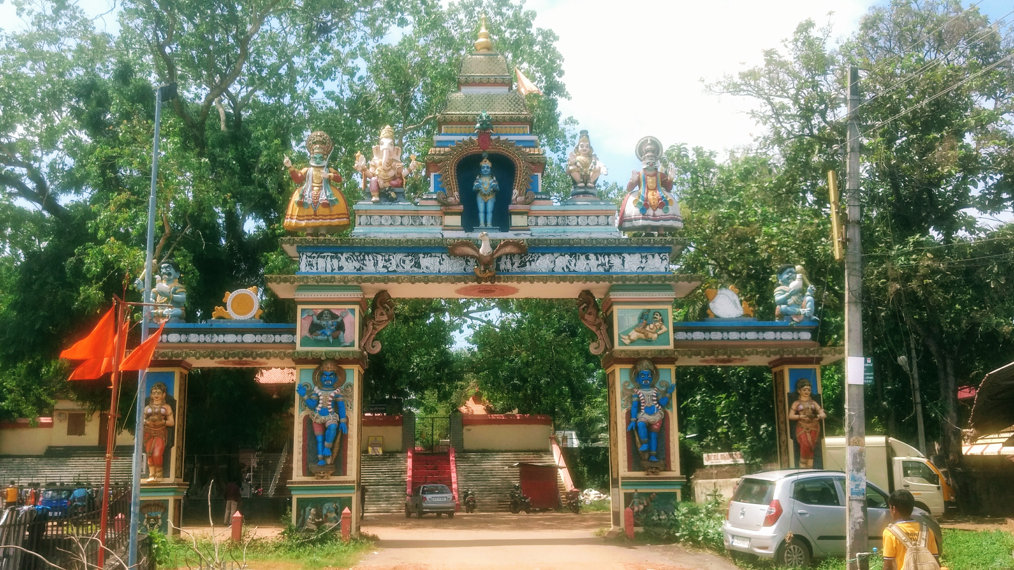 Asramam Sree krishna swami temple is located in Kollam district of Kerala, India.